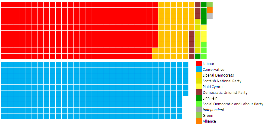 This shows the 649 seats in the House of Commons after the after the United Kingdom 2010 general election, excluding the speaker and his/her 3 deputies. The Constituency of Thirsk and Malton will not elect a member until 27 May 2010, due to the death of the UKIP Candidate, John Boakes.